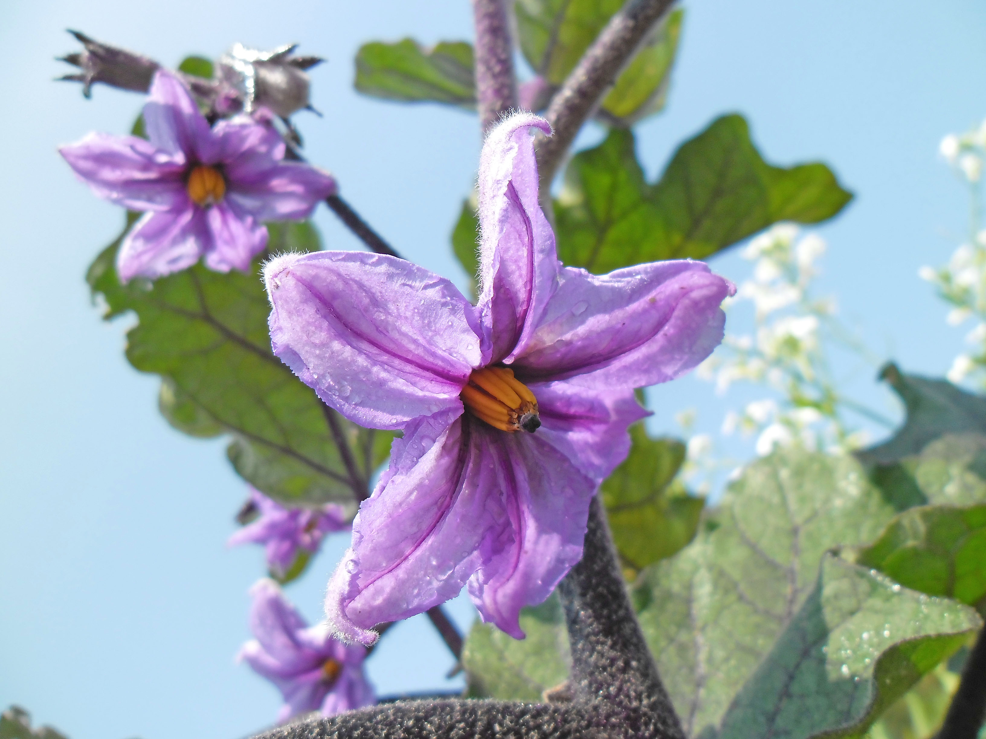 Eggplant, also know as the aubergine, is a member of the plant family Solanaceae, shown here flowering in full bloom as photographed by Earth100.